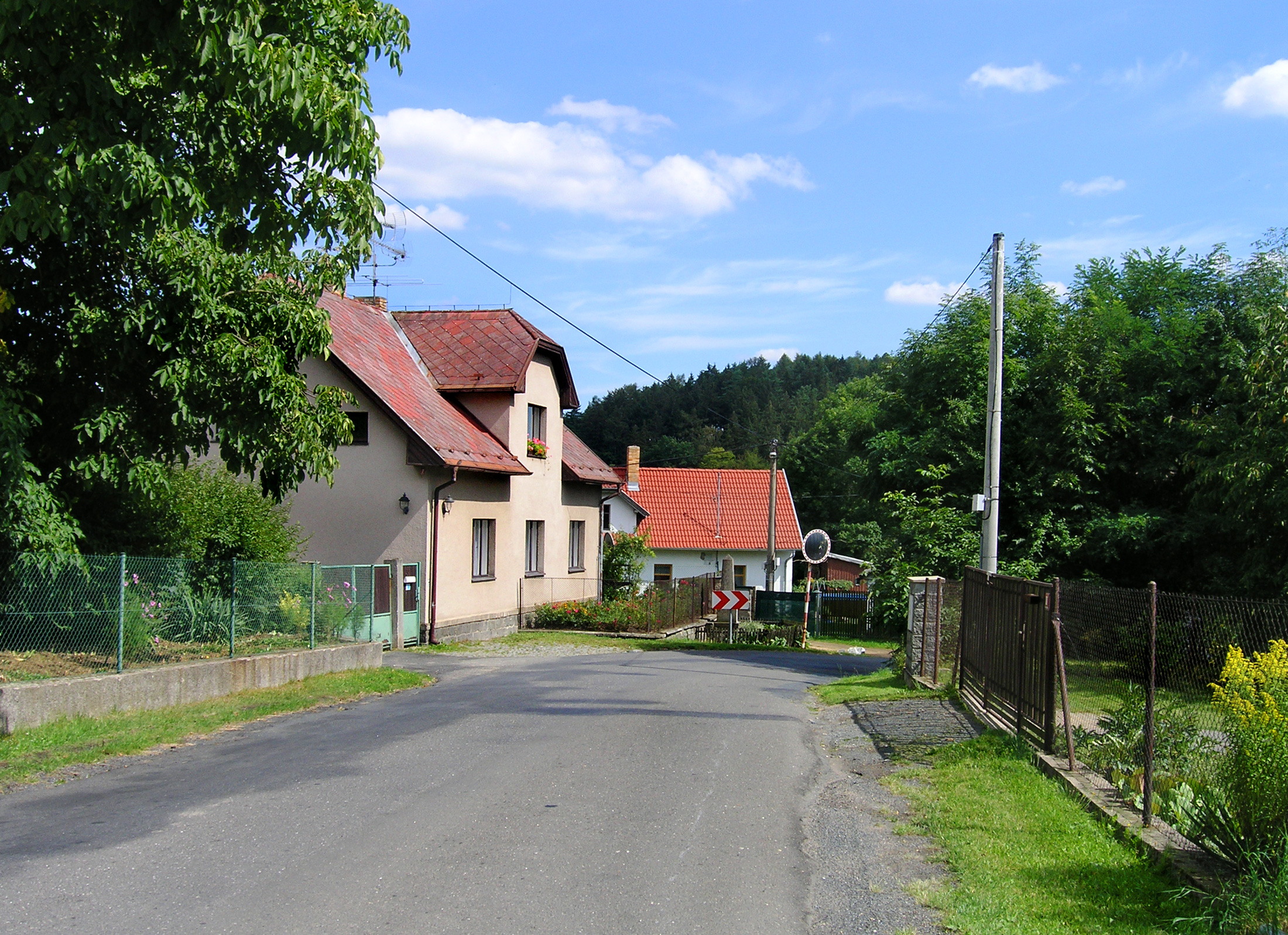 Dolní Lomnice, part of Kunice vilage, Czech Republic